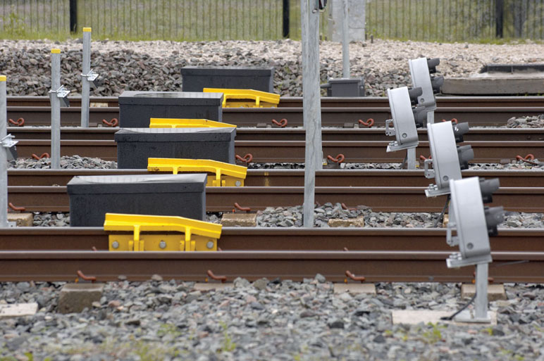 DPPS Ground Position signal and derailer